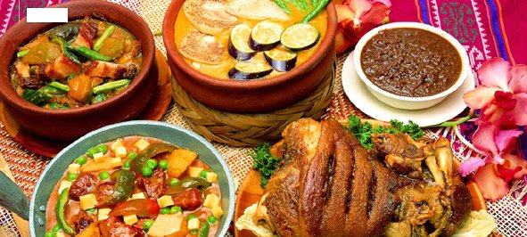 Philippine Food